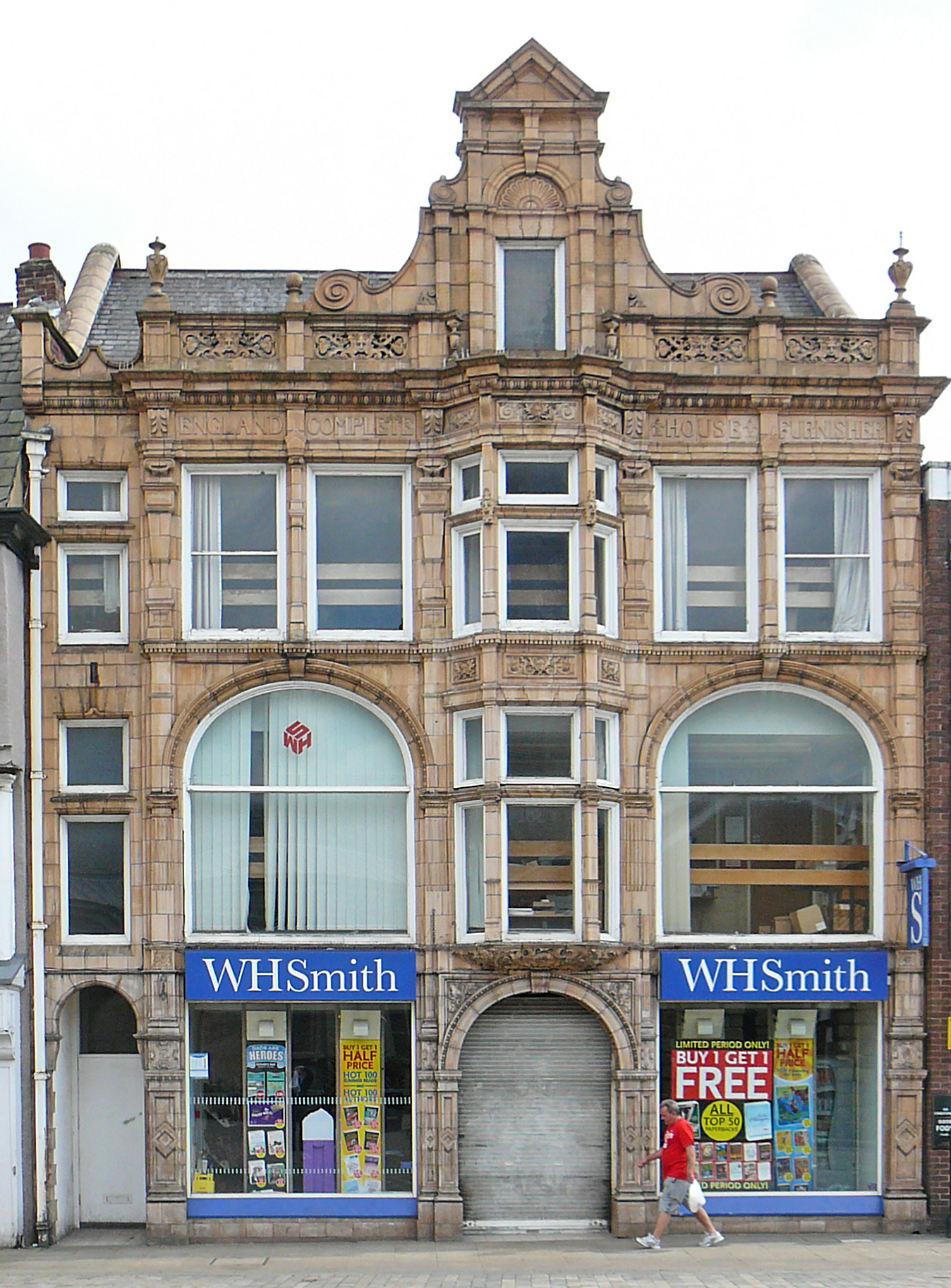 The former England Complete House Furnishers, now WH Smith on the Market Place in Pontefract, West Yorkshire. Taken on Saturday the 31st of May 2010.